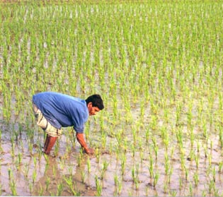 Man working in a ricefield.